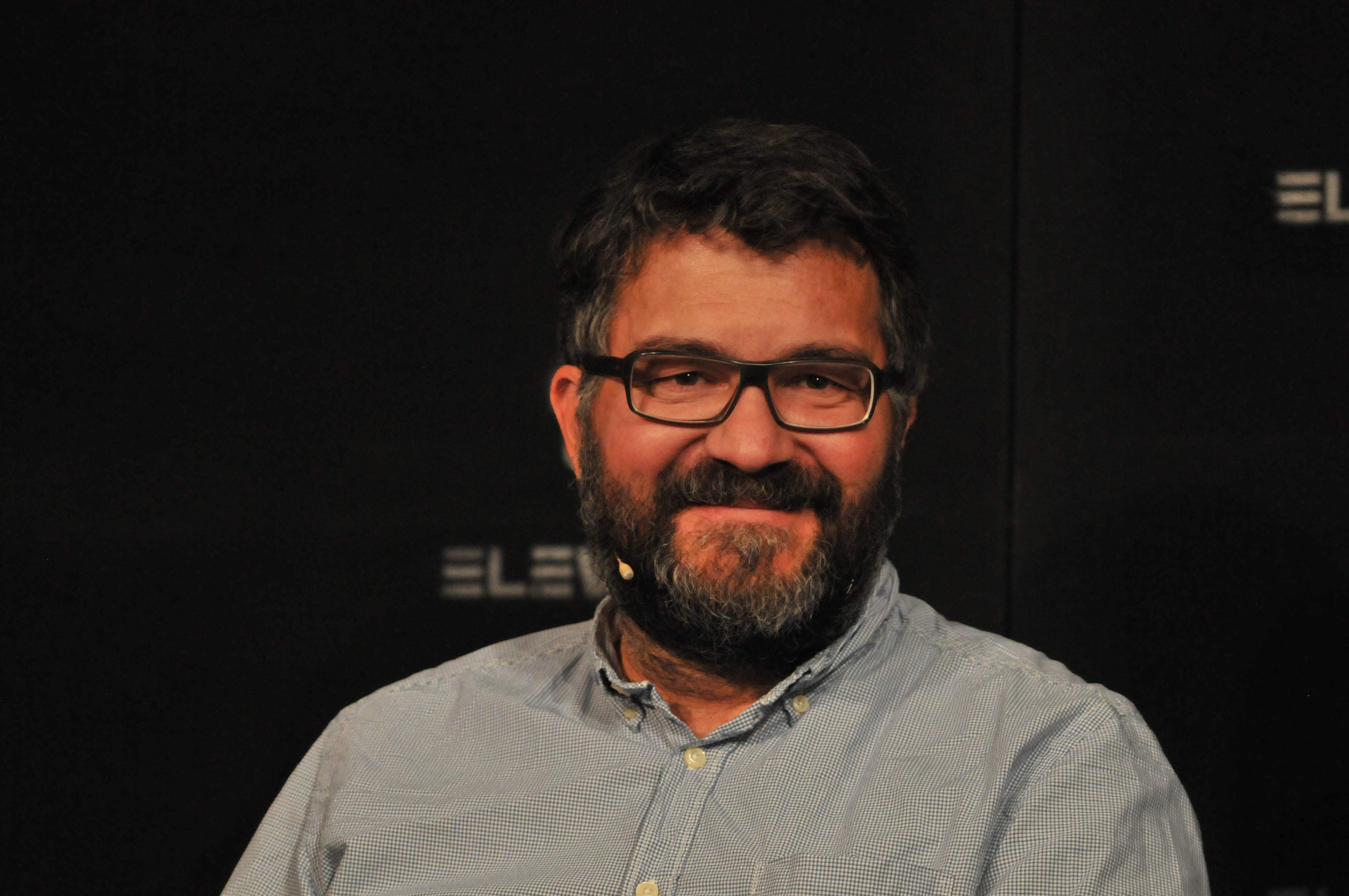 Friedrich Moser on the panel “Internet Policies and Activism in Europe” during the Elevate Festival in Graz, Austria.